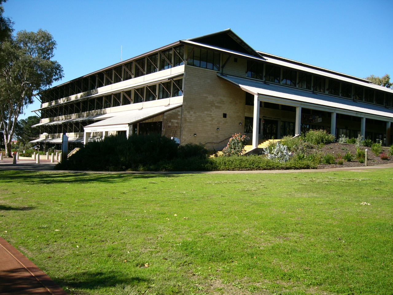 Murdoch Chancellery in Australia, pictured in 2004.